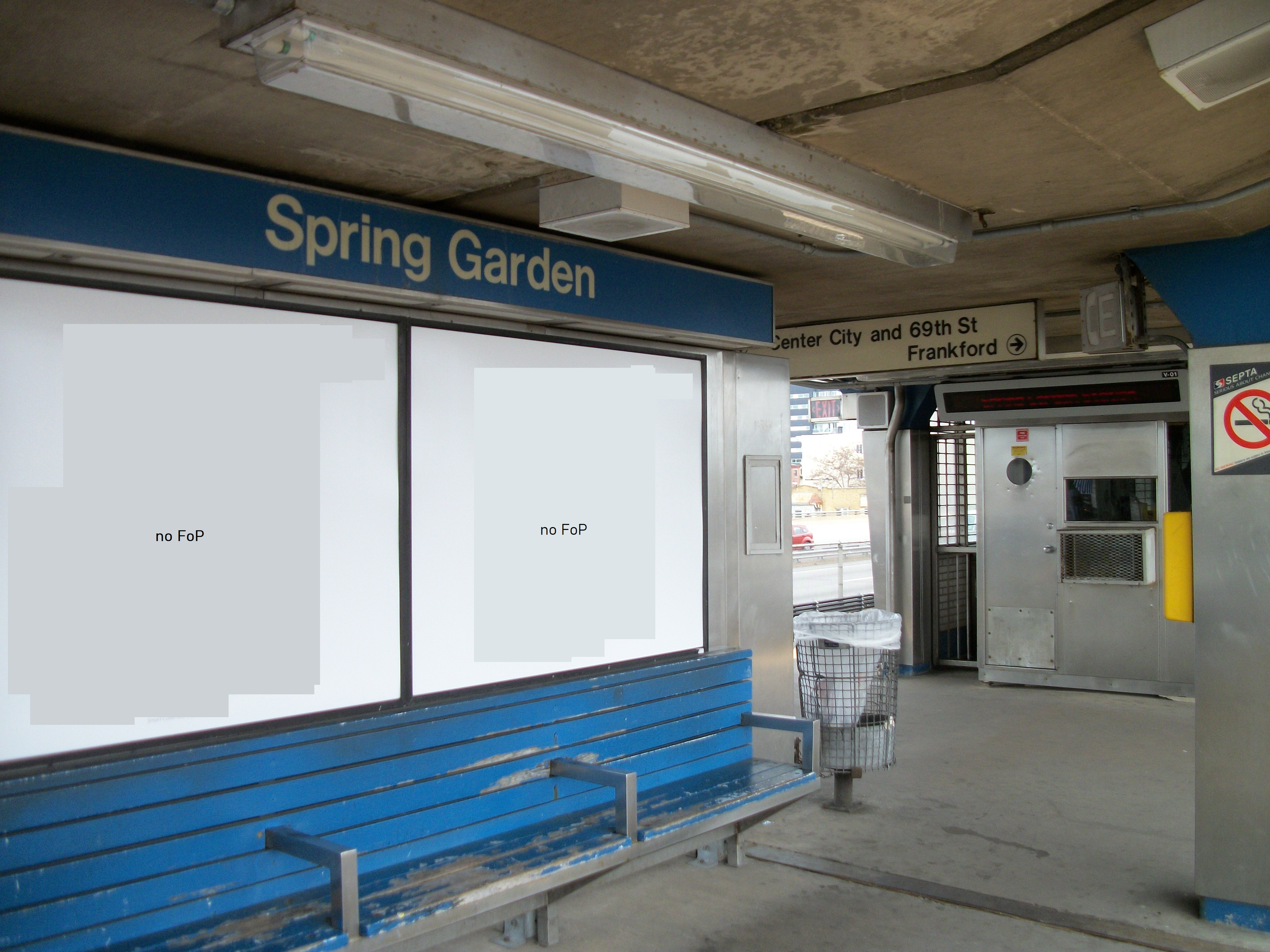 Sign for the Spring Garden (SEPTA Market–Frankford Line station) in the median of Interstate 95 in Philadelphia, Pennsylvania. This sign should not be confused with the advertisement for iPad2 beneath it.